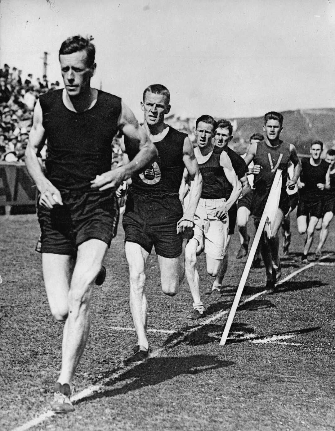 Randolph Rose leading the field in a long distance track race, circa 1930s. Photograph taken by Edward Thomas Robson.